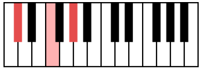 d-flat major chord